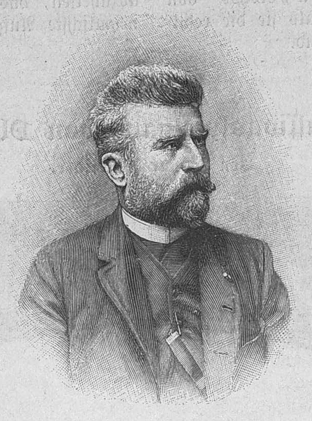 caption: "Karl Lautenschläger."